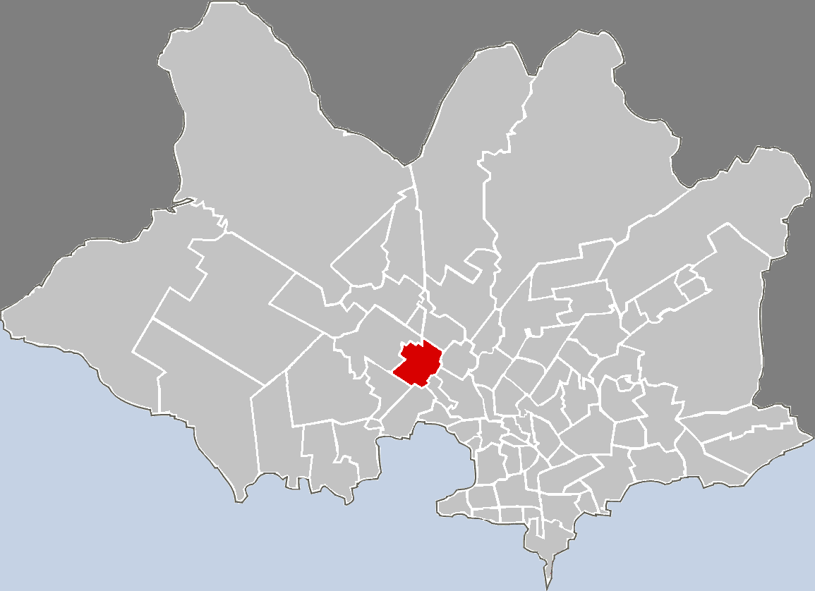 Map highlighting the given barrio in Montevideo.